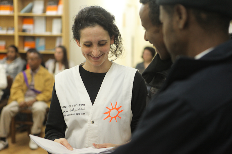 One of our volunteer doctors assists a patient in the PHR-Israel Open Clinic in Jaffa.